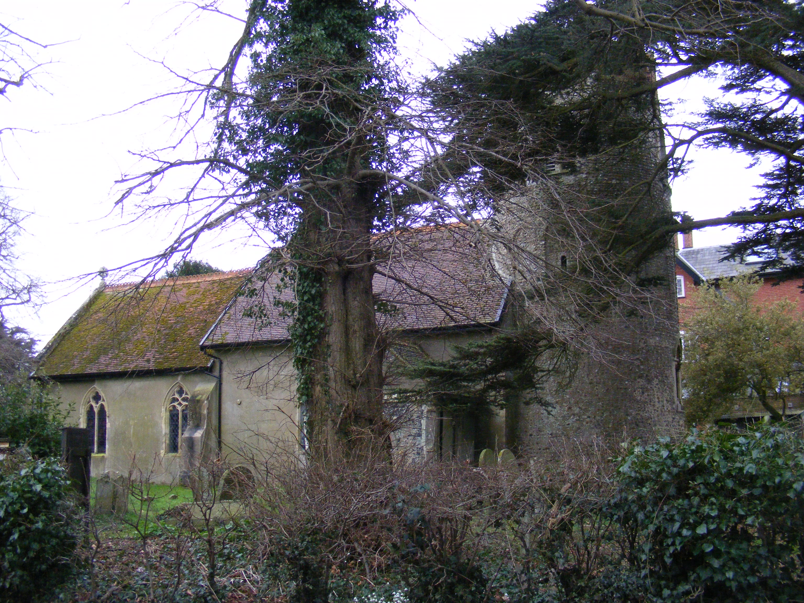 Church of St Peter in Thorington, Suffolk, England. A Grade I listed medieval church.